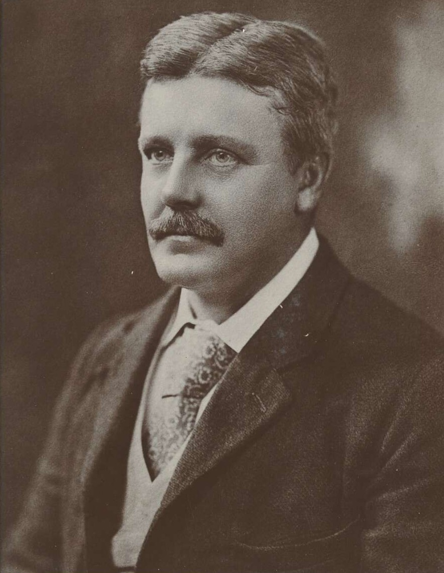 1898 image of Bernhard Ringrose Wise from the collection of the National Library of Australia